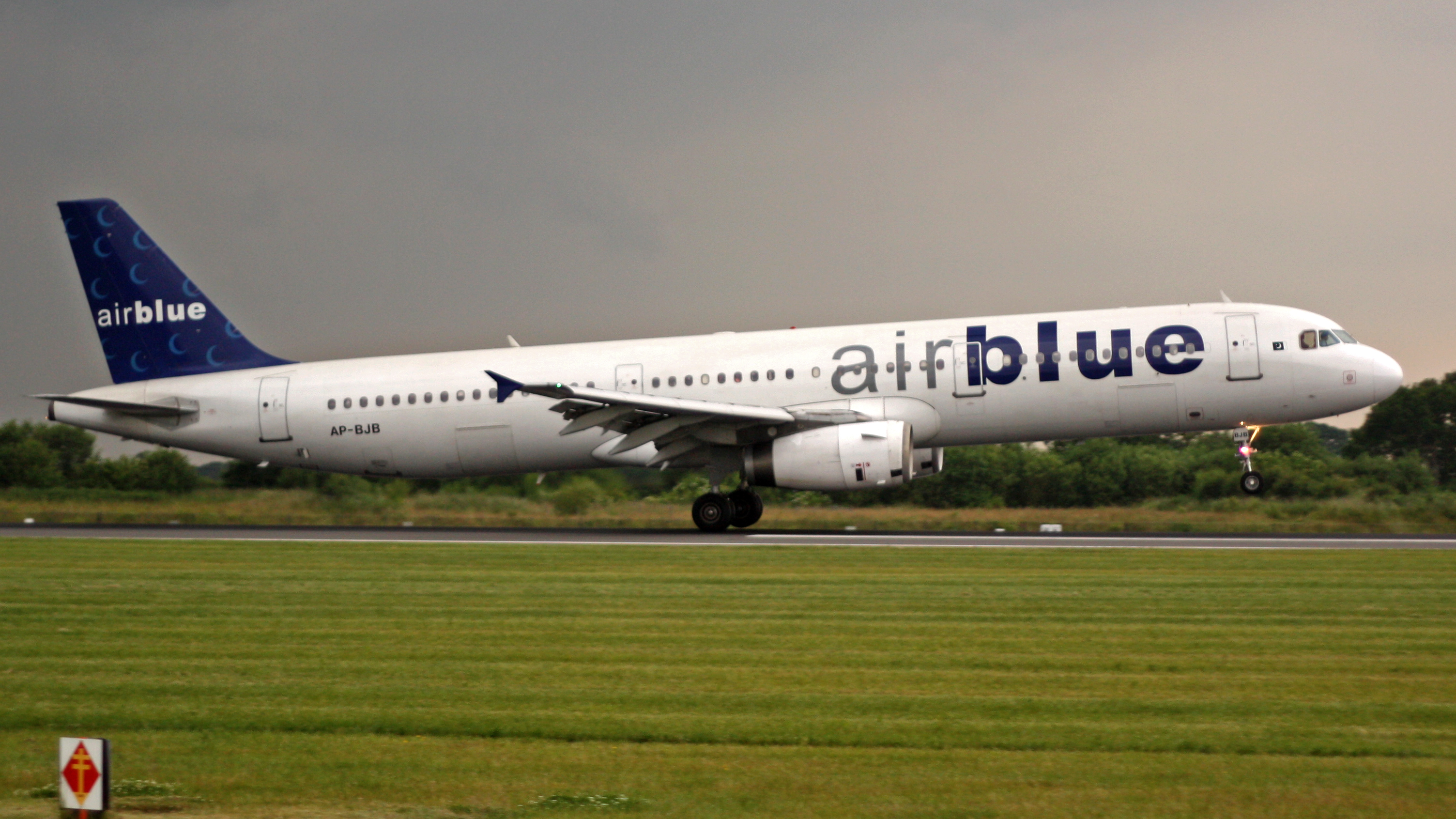 AP-BJB Air Blue A321